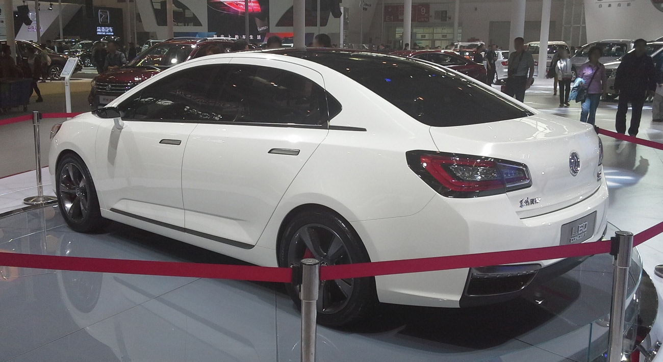 Dongfeng Fengshen L60 Concept photographed at the Auto China 2014, Beijing, China.